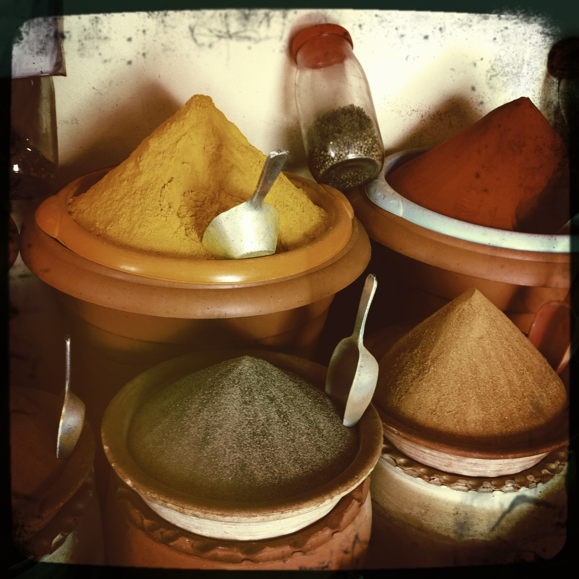 This hipstamatic by François Besch shows some spices in a shop on the island of Djerba.